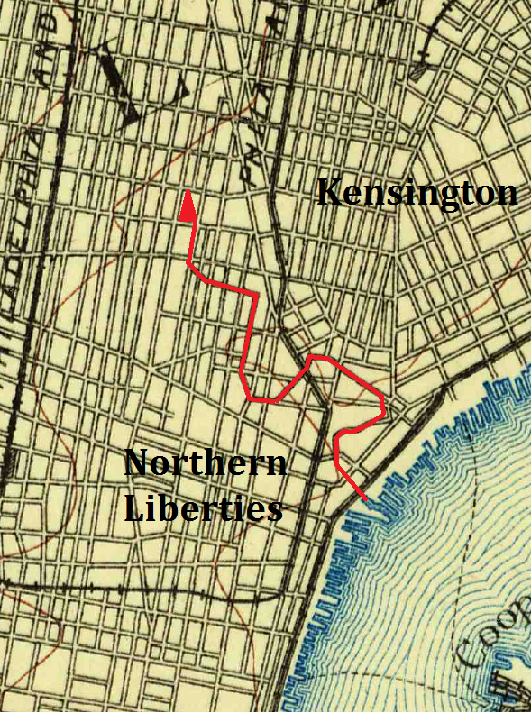 Map showing the route of the former Cohocksink Creek in Philadelphia.